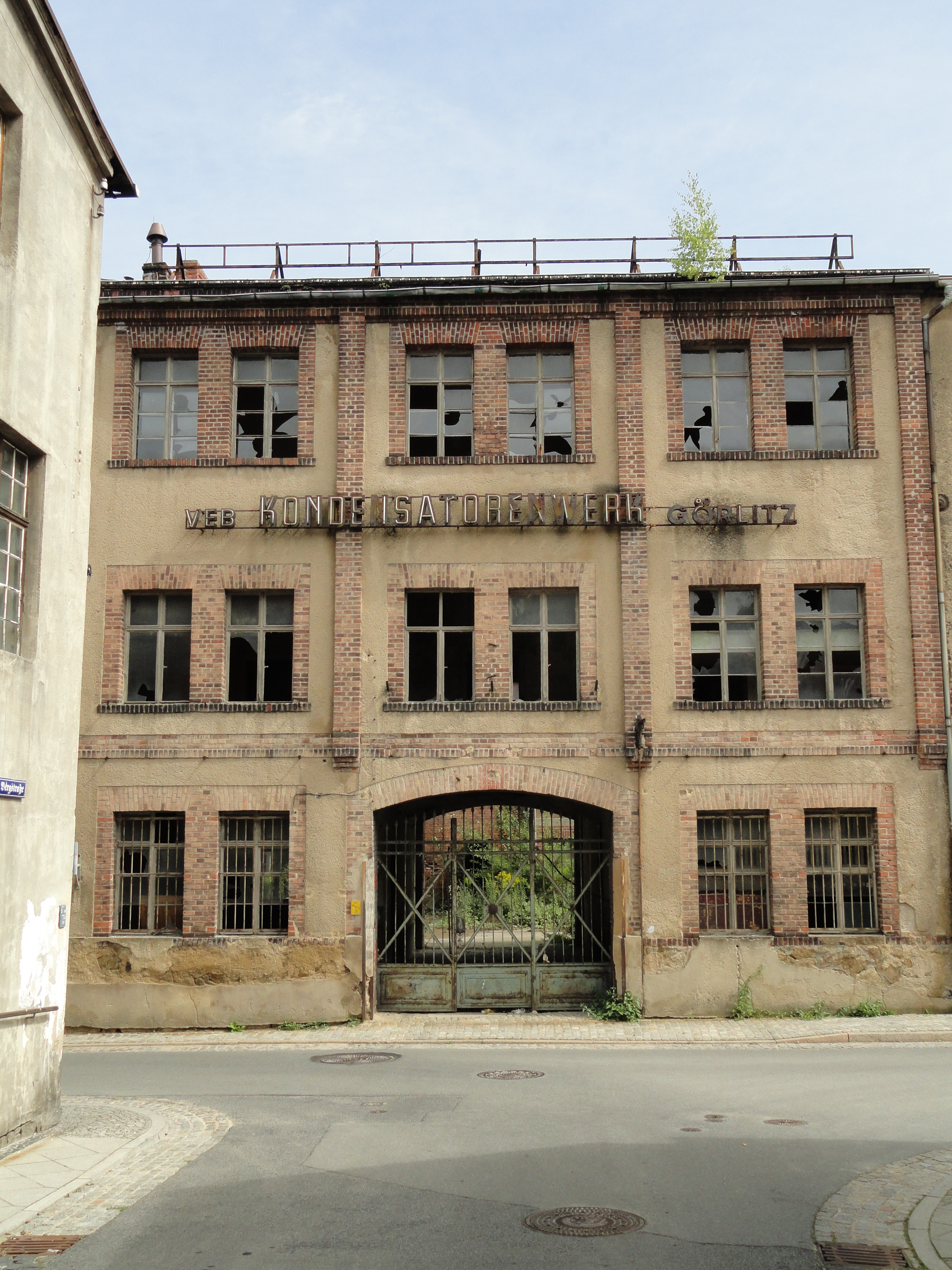 ruin of the former VEB Kondensatorenwerk Görlitz (German Demokratic Republic) in Goerlitz, Saxony